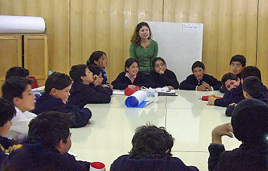 Picture of a class of Chilean English students and the English teacher from Calama, Chile.